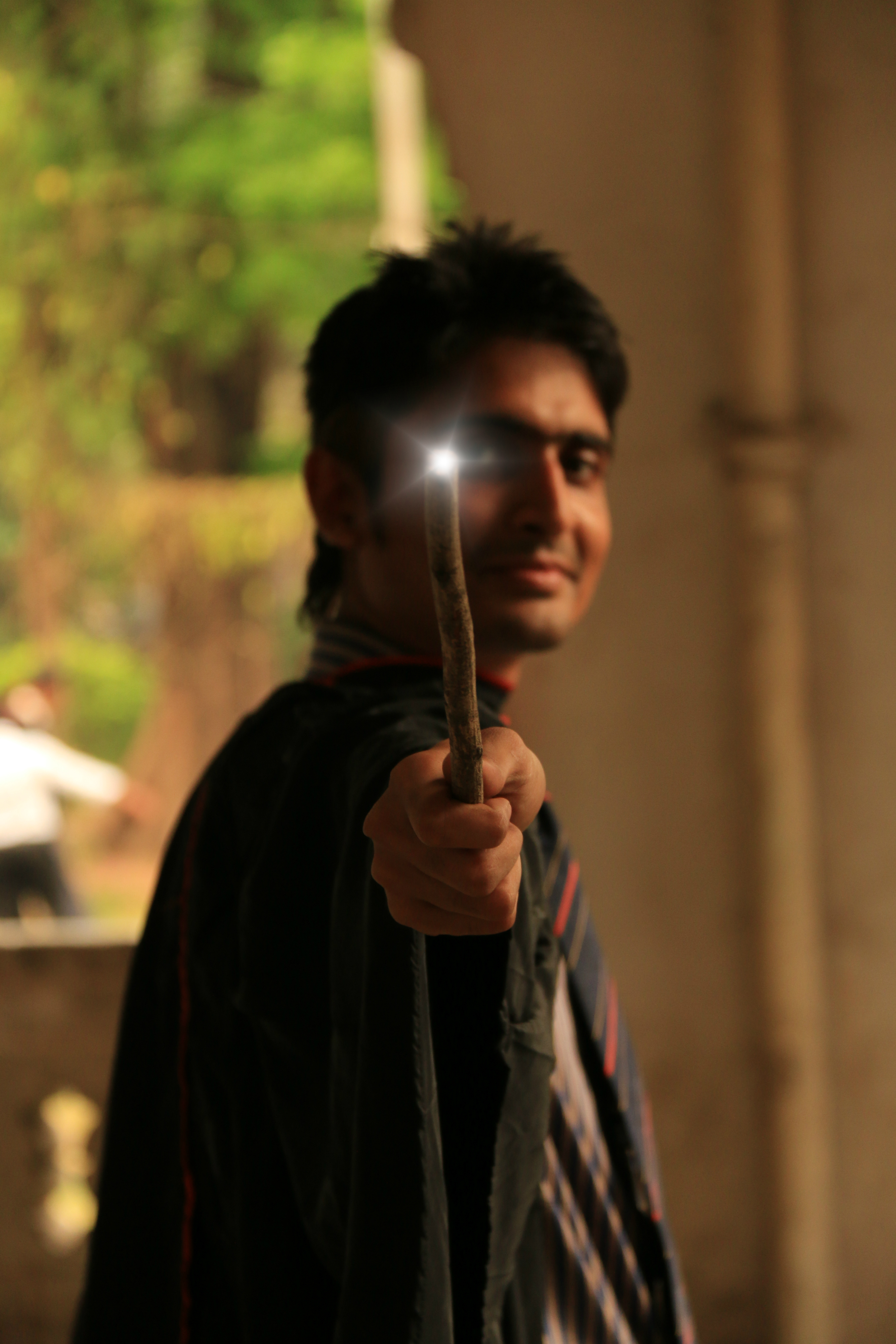 Harry Potter fans imitates Harry, Lumos Maxima